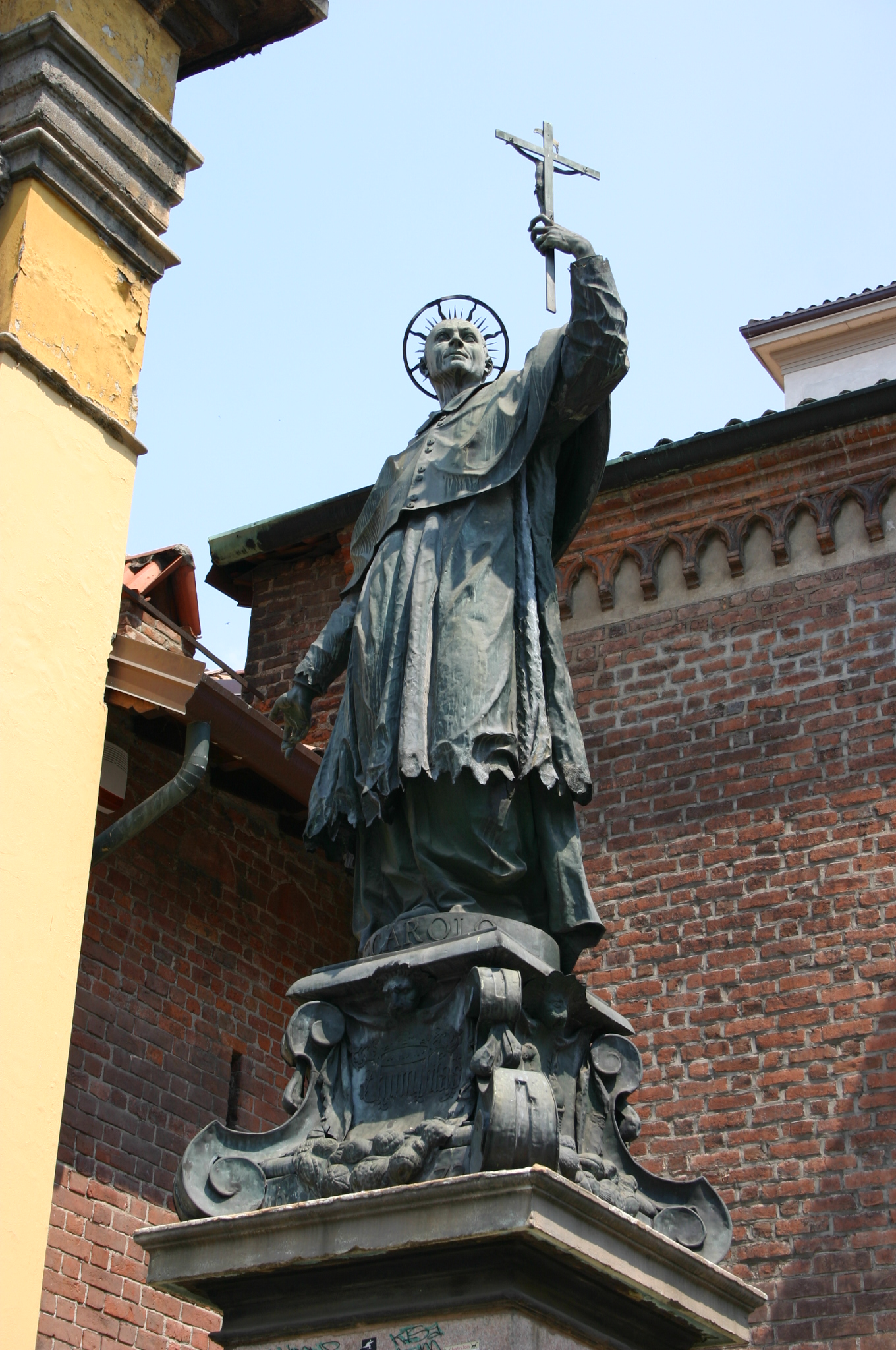 Dionigi Bussola, Copper statue of saint Charles Borromeo, in Piazza Borromeo in Milan, Italy. The statue originally stood in Piazzale Cordusio, but the House of Borromeo was forced in 1786 to move it here "within ten days" for "obstruction to circulation" after the Austrian governor's carriage had knocked it. Picture by Giovanni Dall'Orto, May 18 2007.